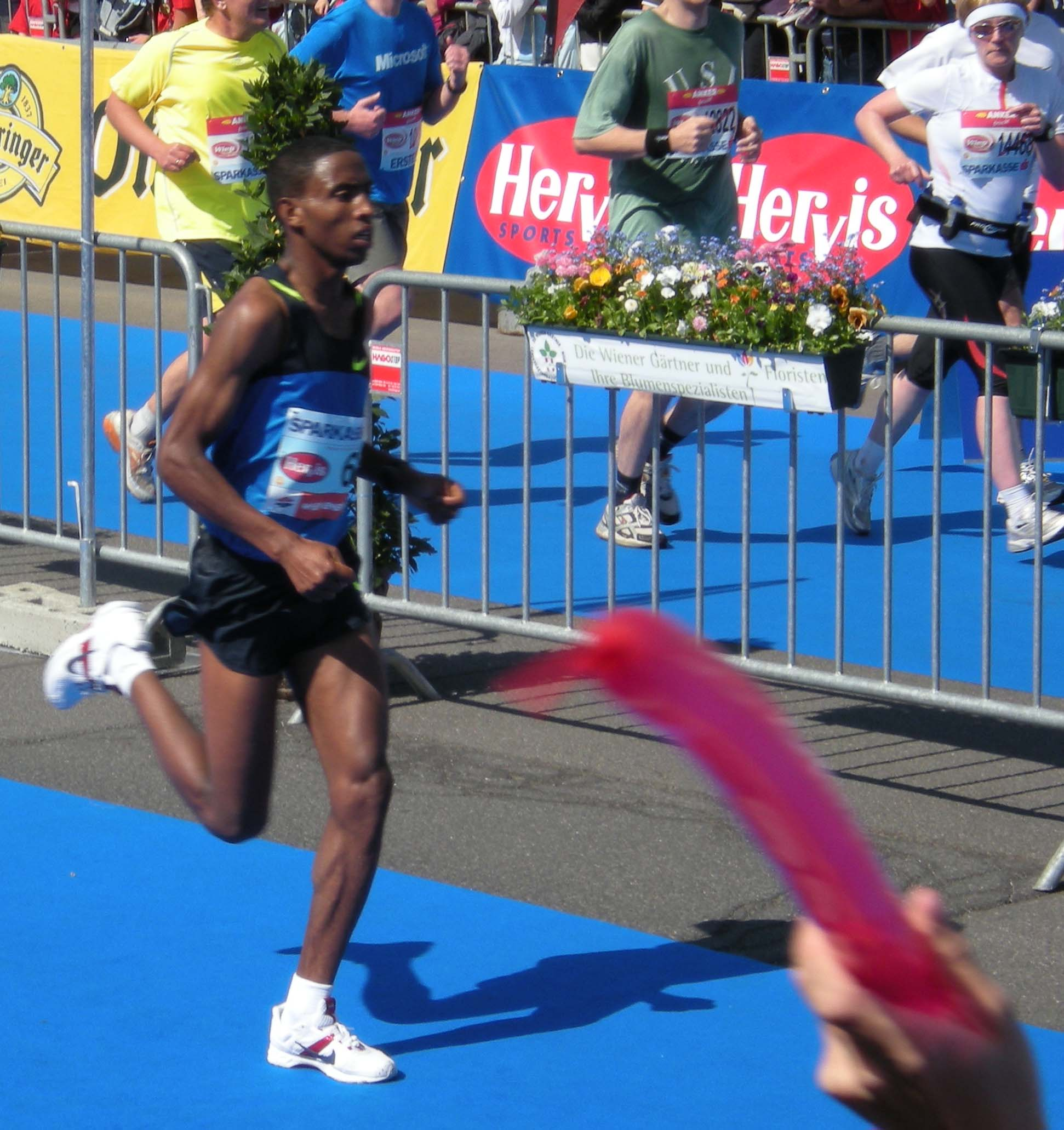 Vienna City Marathon 2009; on details, see filename or official Note: Camera time is set on UTC, which is local time -2, and might be wrong ~ +/-1_min.